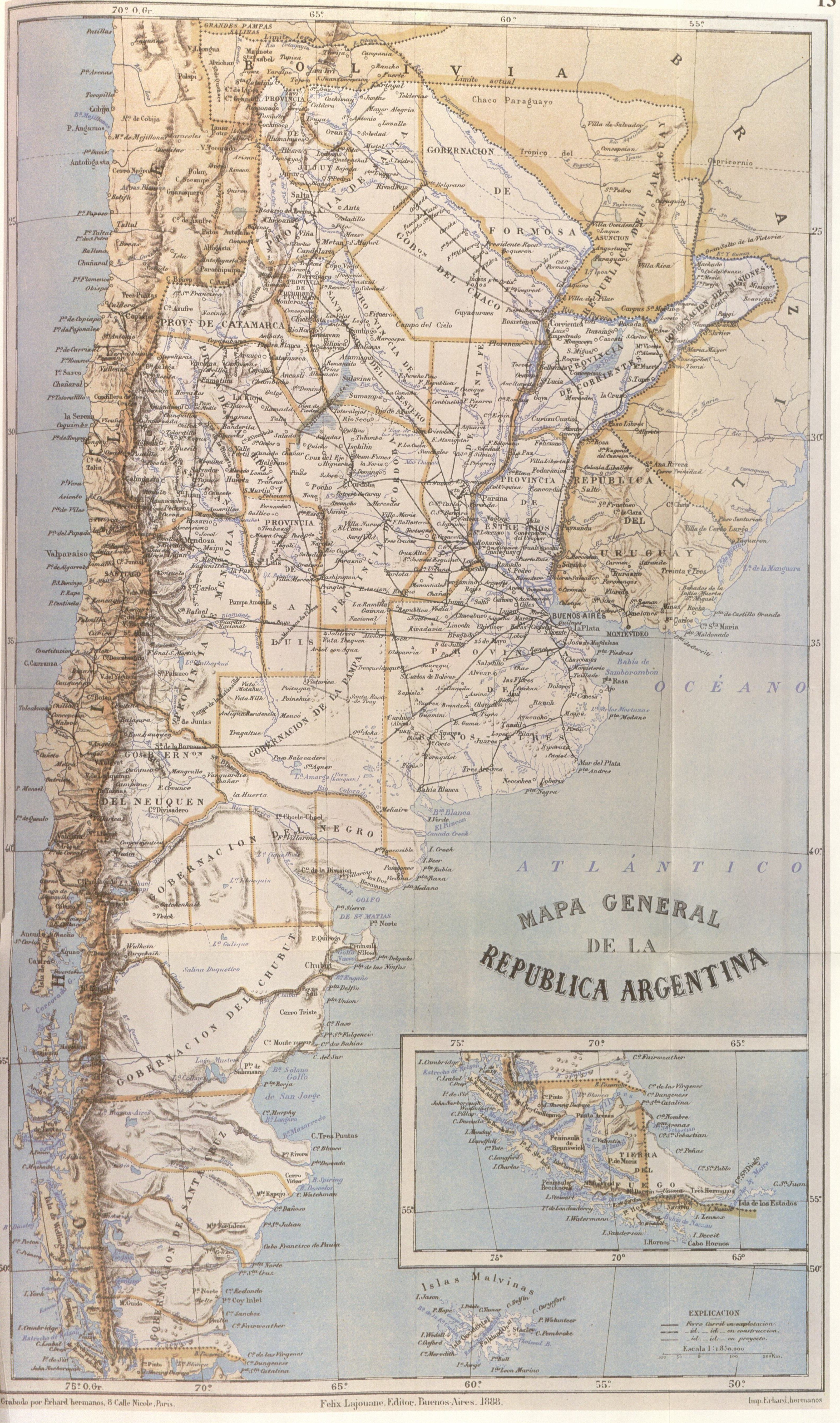 "This map, partially reproduced here, is included in the Geography of the Argentine Republic published in Buenos Aires in 1888 by Francisco Latzina, National Director of the Argentine Statistics and member of numerous scientific societies. In the extreme southern region, the international boundary is traced along the centre of the Beagle Channel and stretches to the south of the Isla de los Estados. Here it shows Picton, Nueva and Lennox Islands and all other islands and islets extending southward as far as Cape Horn as being undr Chilean sovereignty."